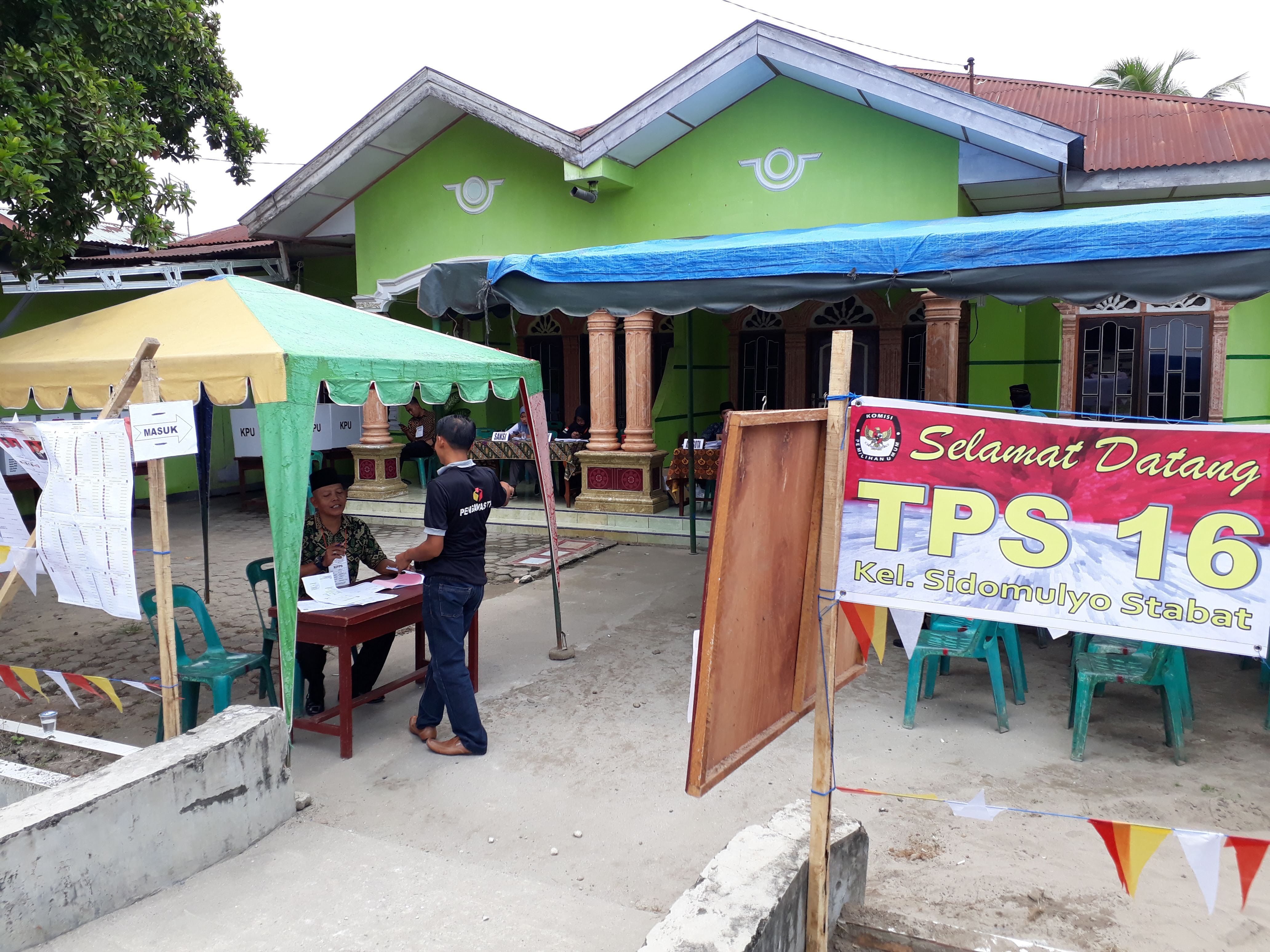 Ballot boxes used for Indonesia's 17 April 2019 elections for the president, both houses of the People's Consultative Assembly and two levels of regional government.